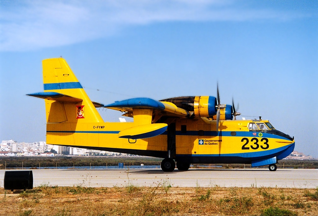 Leased to Portuguese fire service